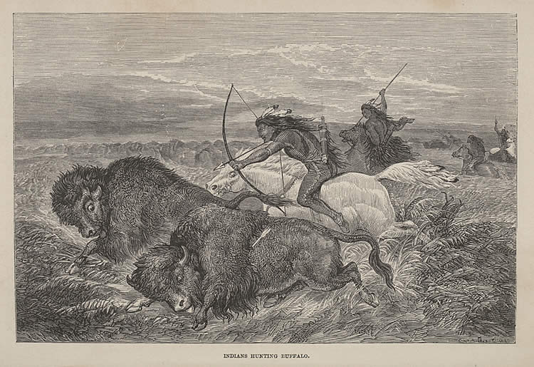 Plate from Richard Irving Dodge THE HUNTING GROUNDS OF THE GREAT WEST; A DESCRIPTION OF THE PLAINS, GAME, AND INDIANS OF THE GREAT NORTH AMERICAN DESERT. London, Chatto & Windus, 1877.